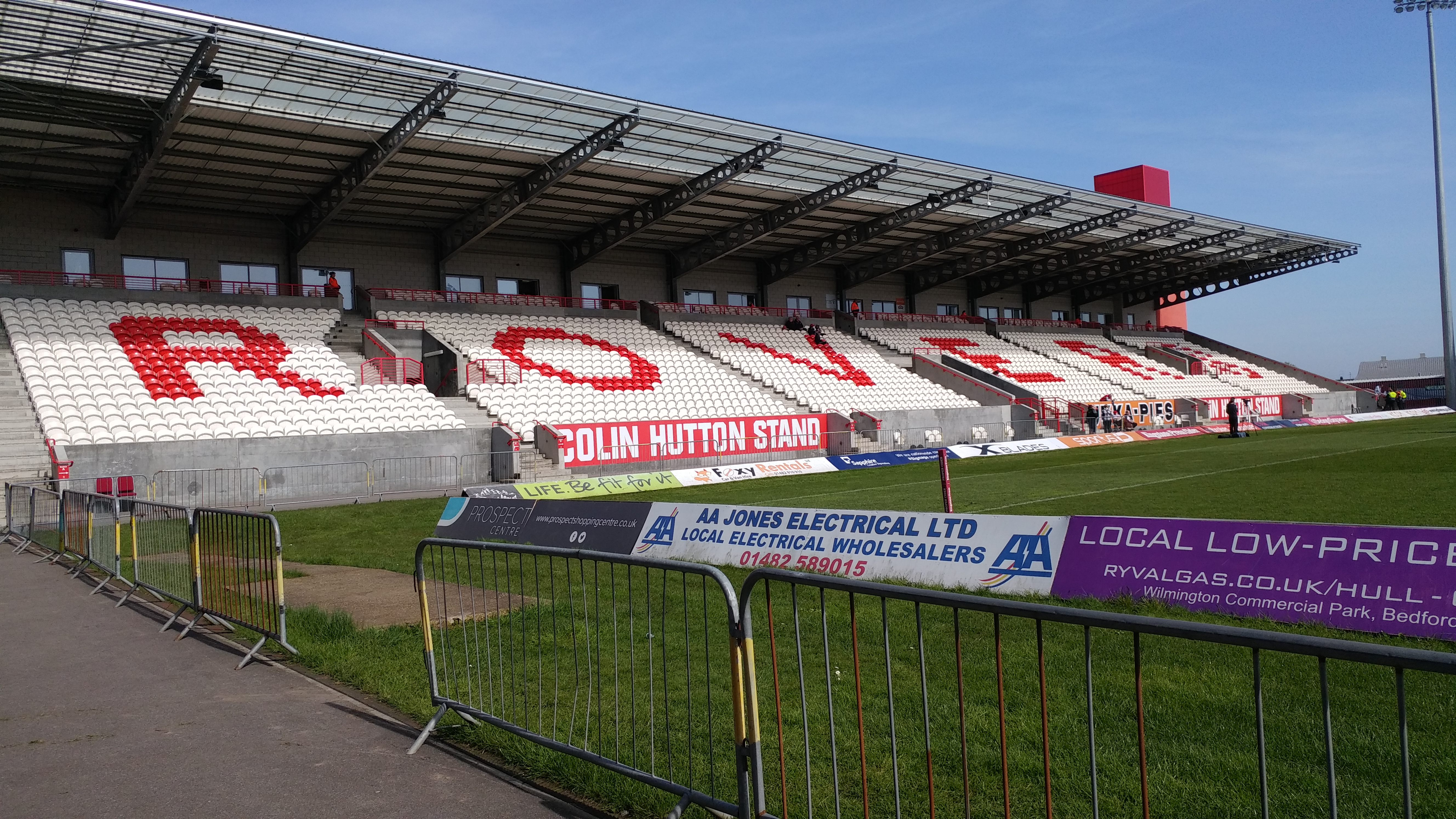 The Colin Hutton North Stand at KCOM Craven Park.